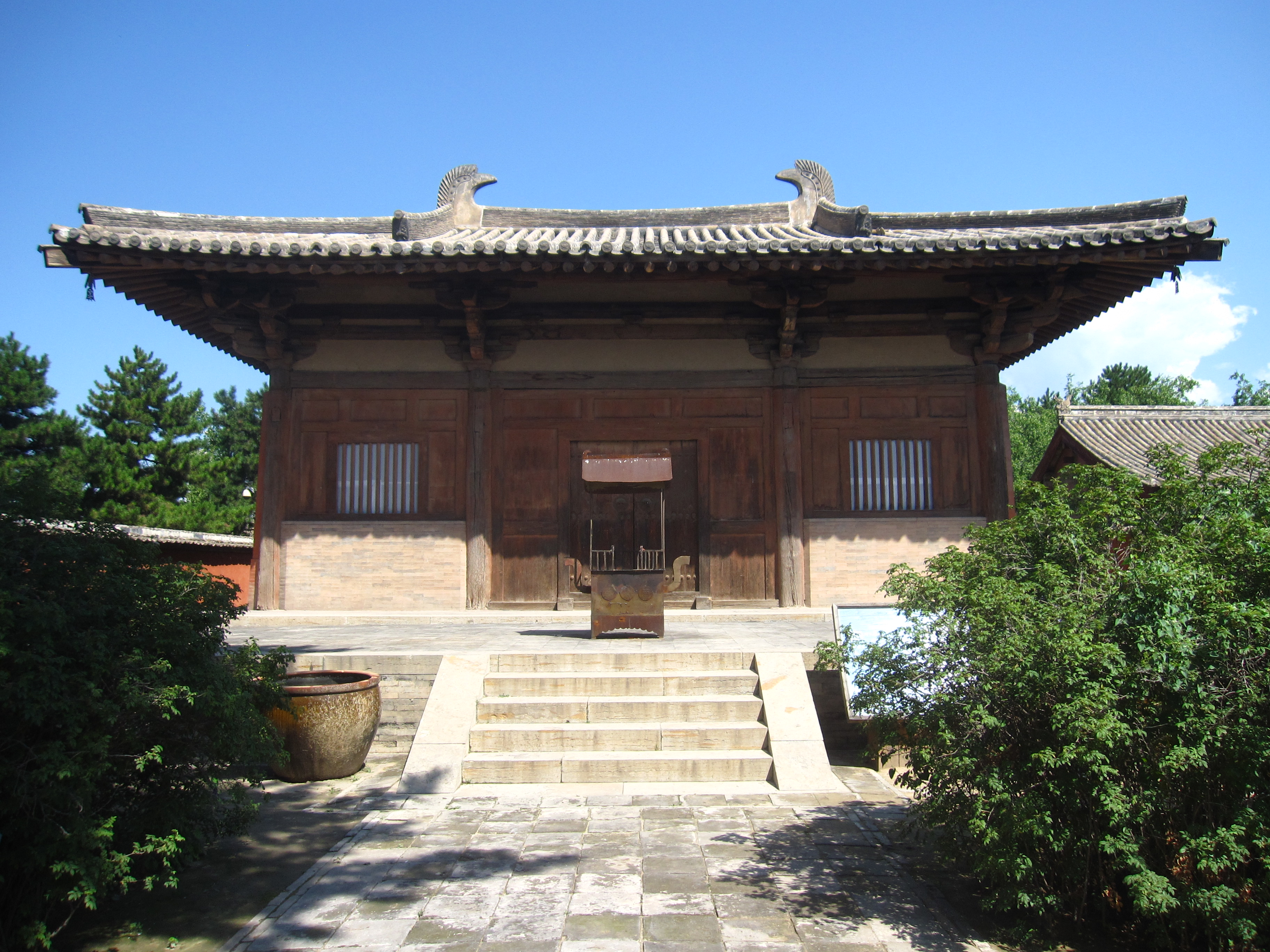 The main hall of Nanchan Temple, near Wutaishan, Shanxi, China